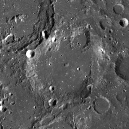 Roentgen lunar crater LROC Note the vertical 90°W image seam at right border